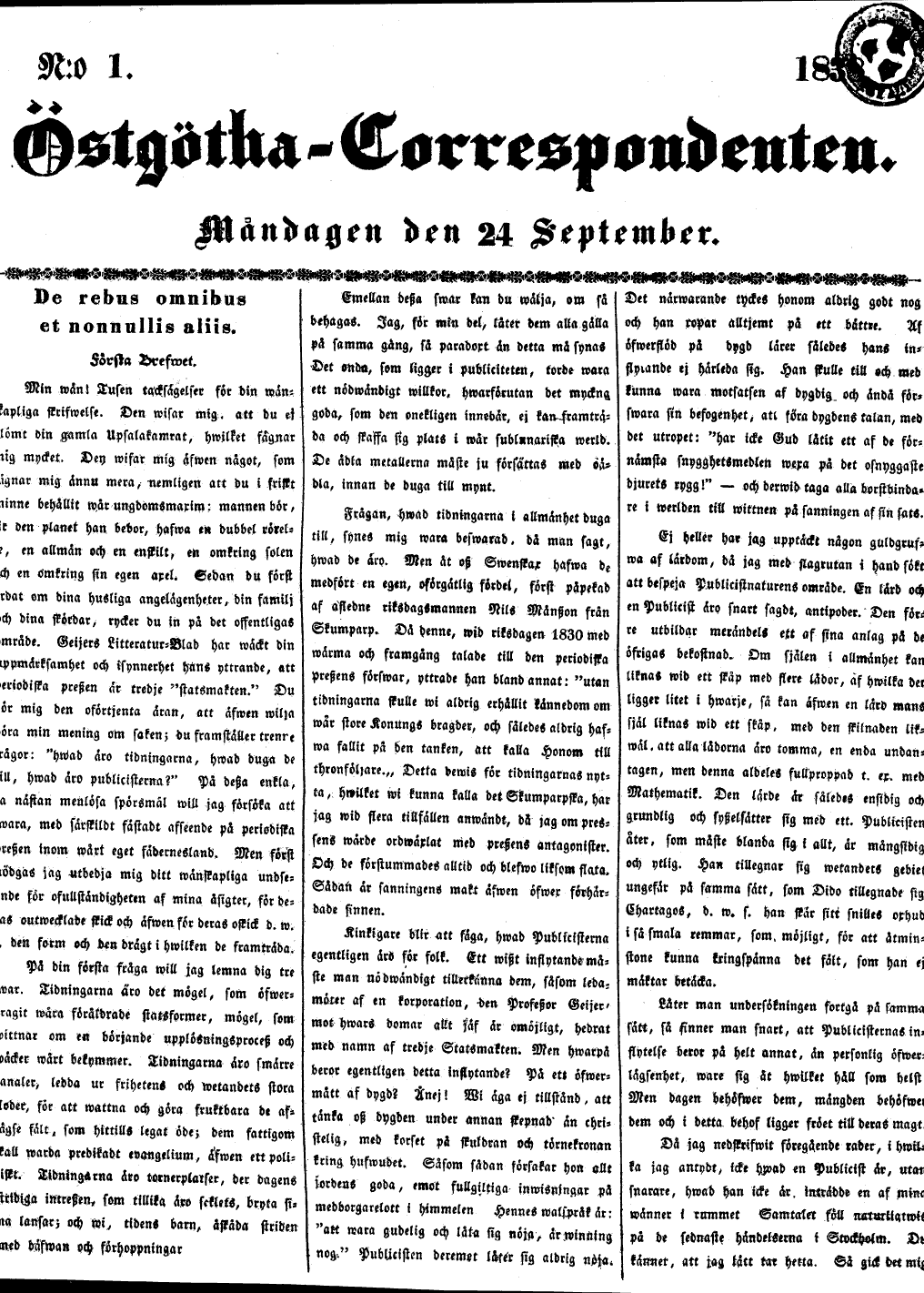 Facsimile of Östgötakorrespondenten